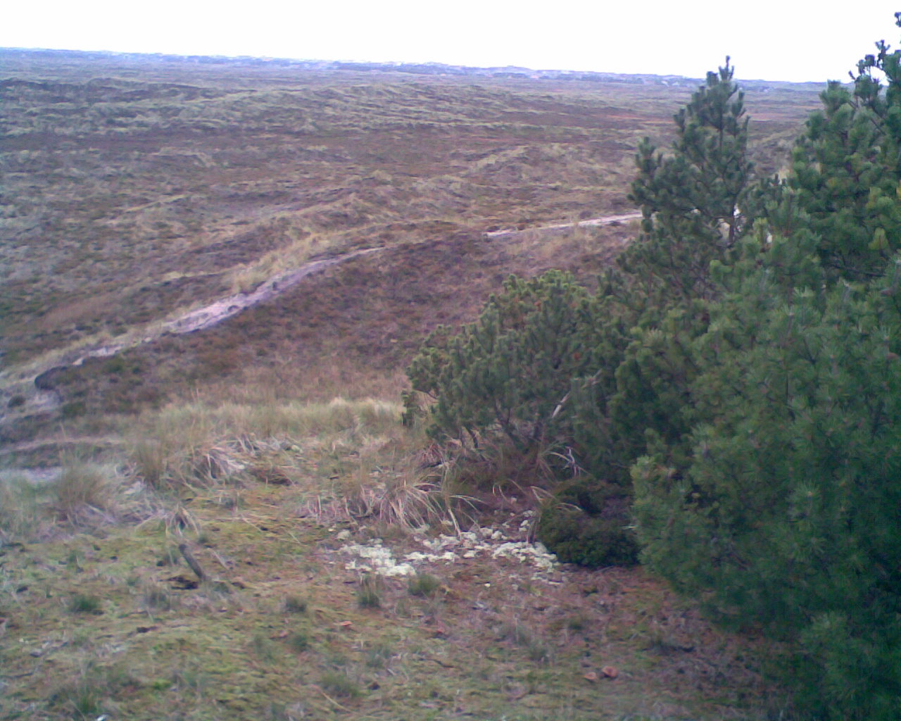 Lyngbo Heath, Denmark